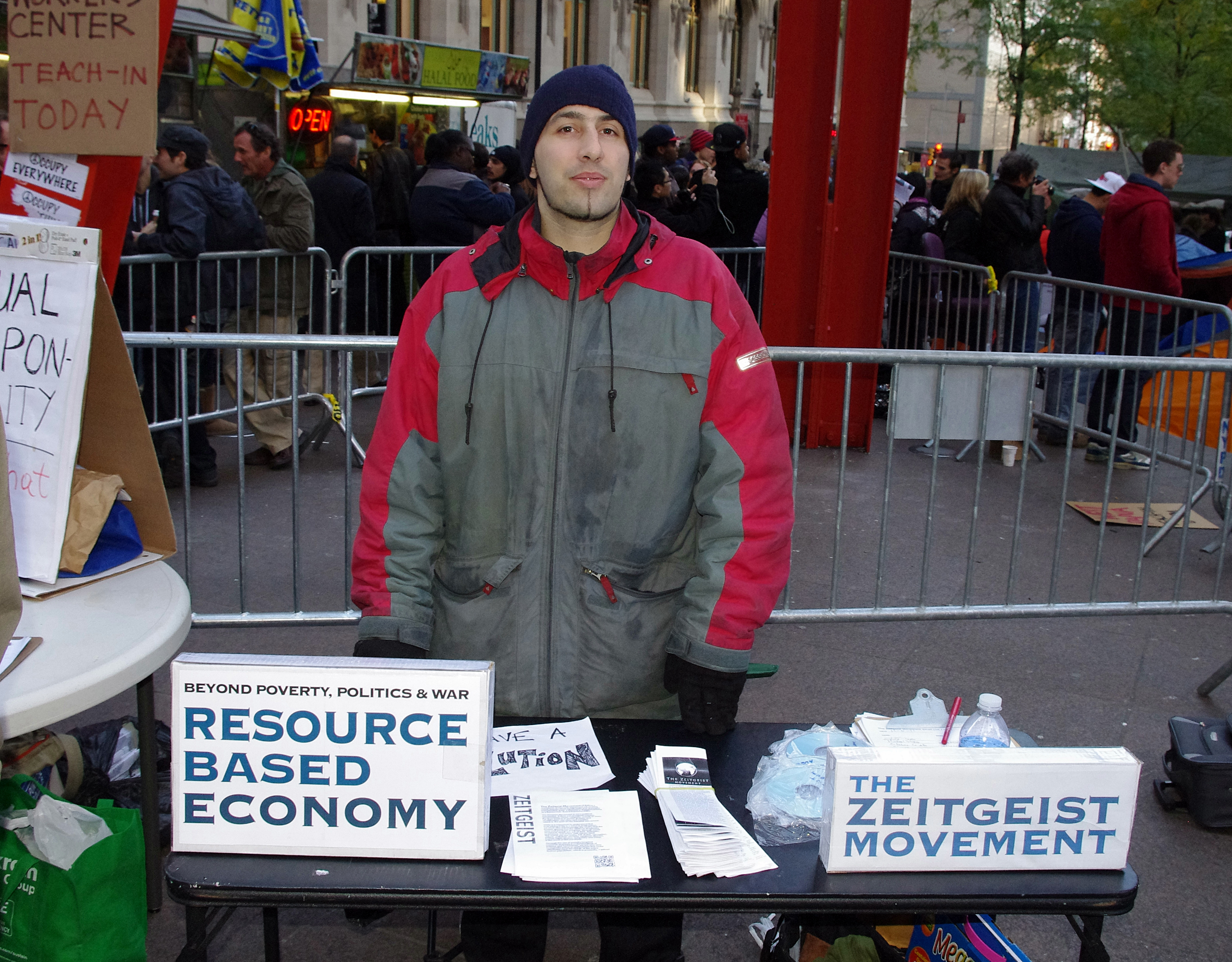 Photos from Day 50 of Occupy Wall Street in Zuccotti Park on November 5, 2011.